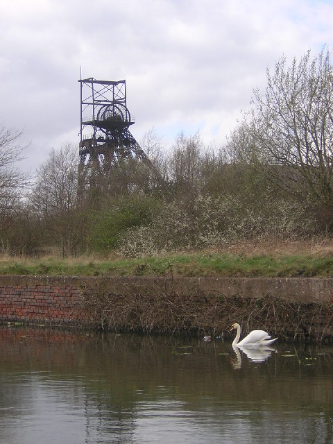 Bridgewater Canal and Disused Astley Green Colliery The colliery is closed, but the pithead is the last surviving in the whole of the Lancashire coalfield.